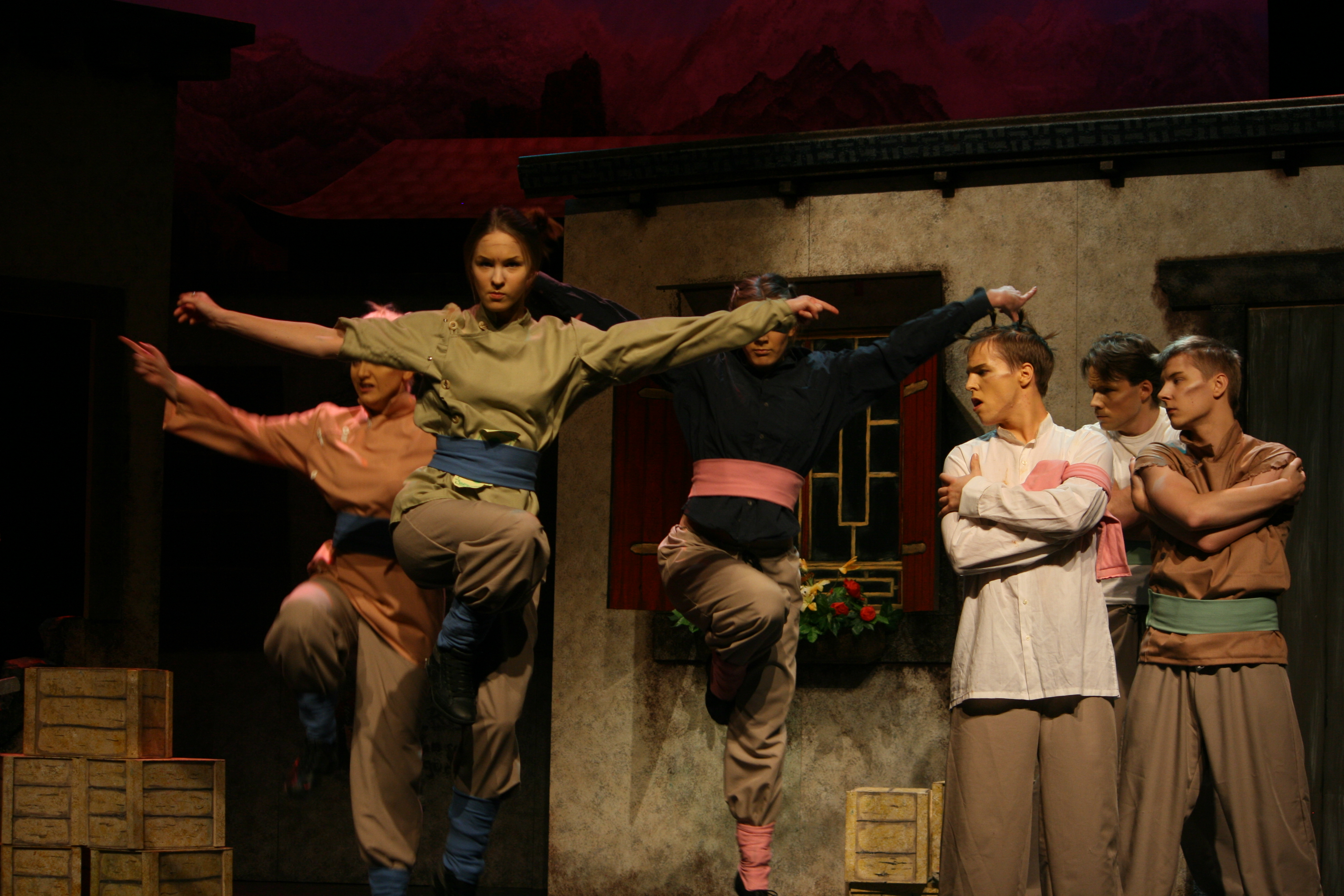 Dance scene from Kårspexet 2010: "Shangri-la eller när lösningen till problemet är källan".